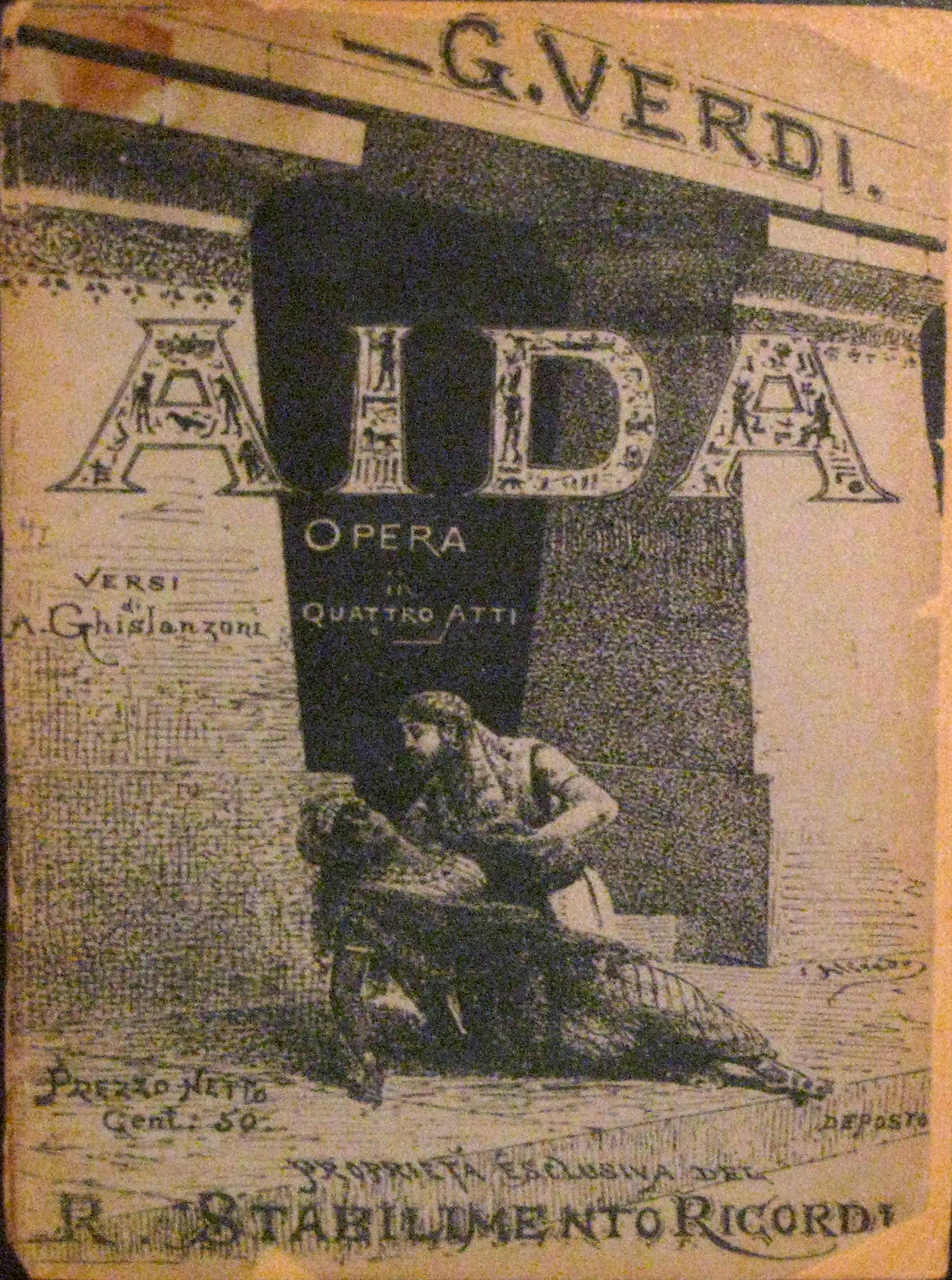 Libretto of Aida. 26 aprilm 1890. Cover by Alfredo Edel